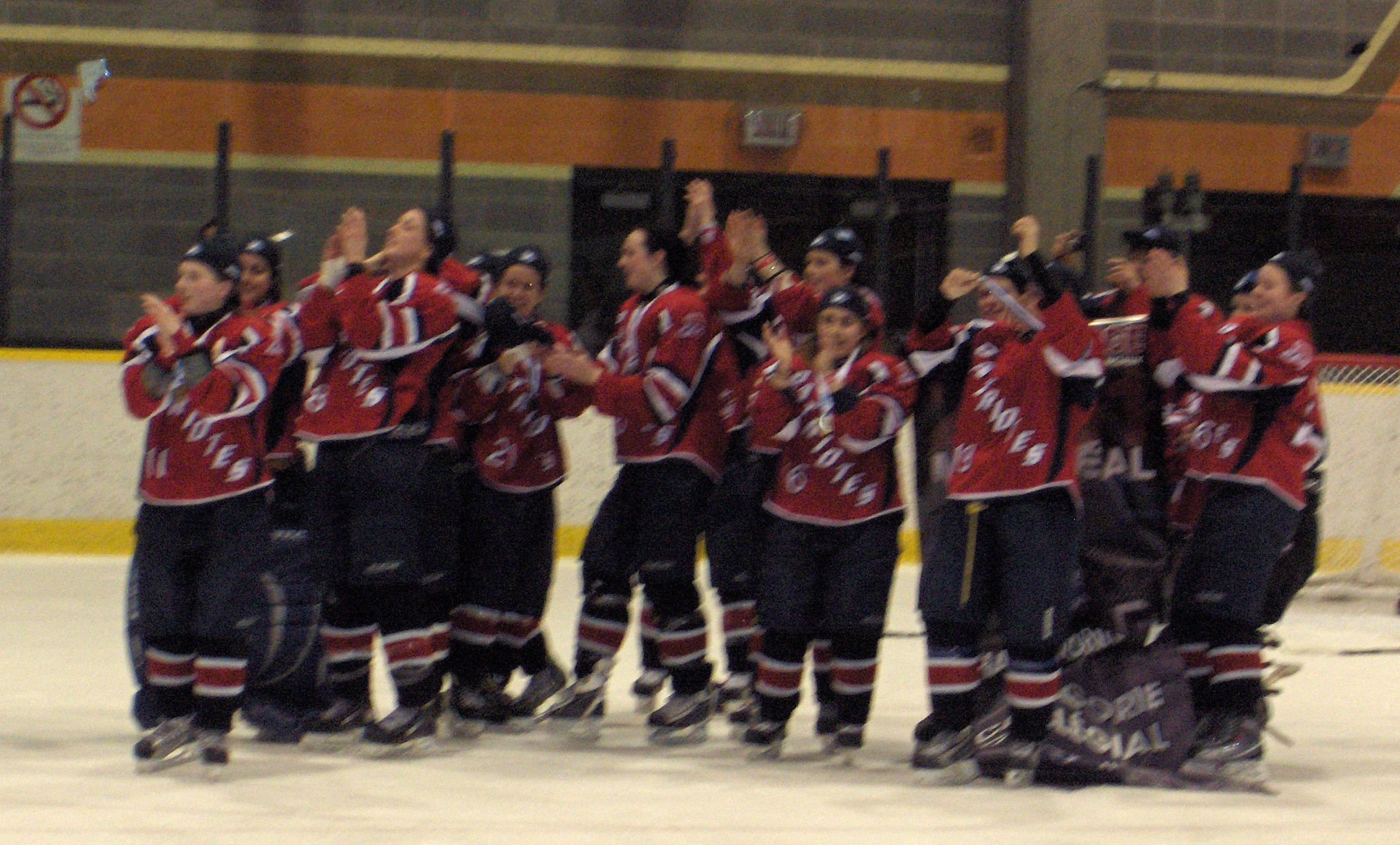 Victory of Patriotes du Cégep St-Laurent at the championship game 2010-11 (Ligue de hockey féminin collégial AA)